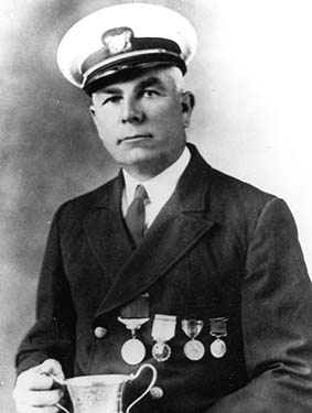 John Allen Midgett was recognized by the UK government for saving UK seamen in 1918. The Coast Guard later named the USCGC Midgett (WHEC-726) after him.